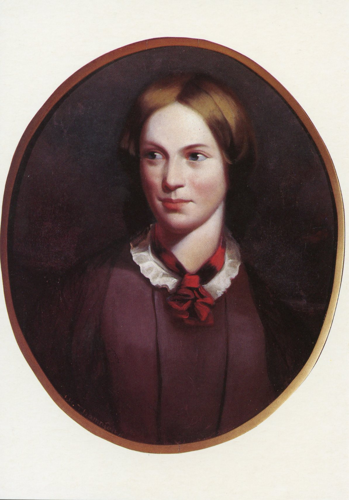 Based on the description found in a letter from Mrs Gaskell to Catherine Winkworth. "She has soft brown hair, eyes (very good and expressive looking straight and open at you) of the same colour".